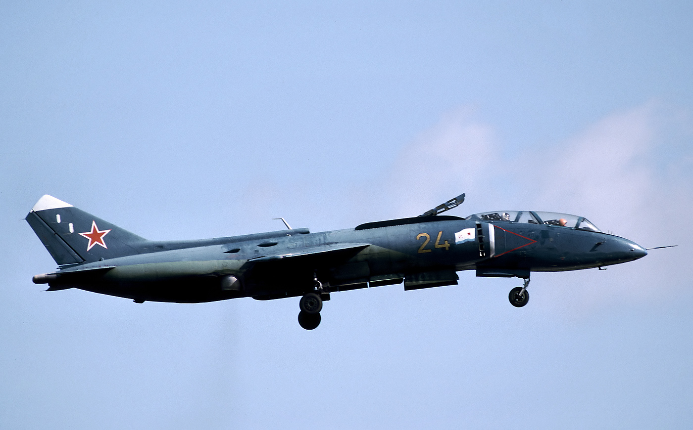 A Yak-38U 'Forger-B'. The two seat version is even uglier than the single seater.